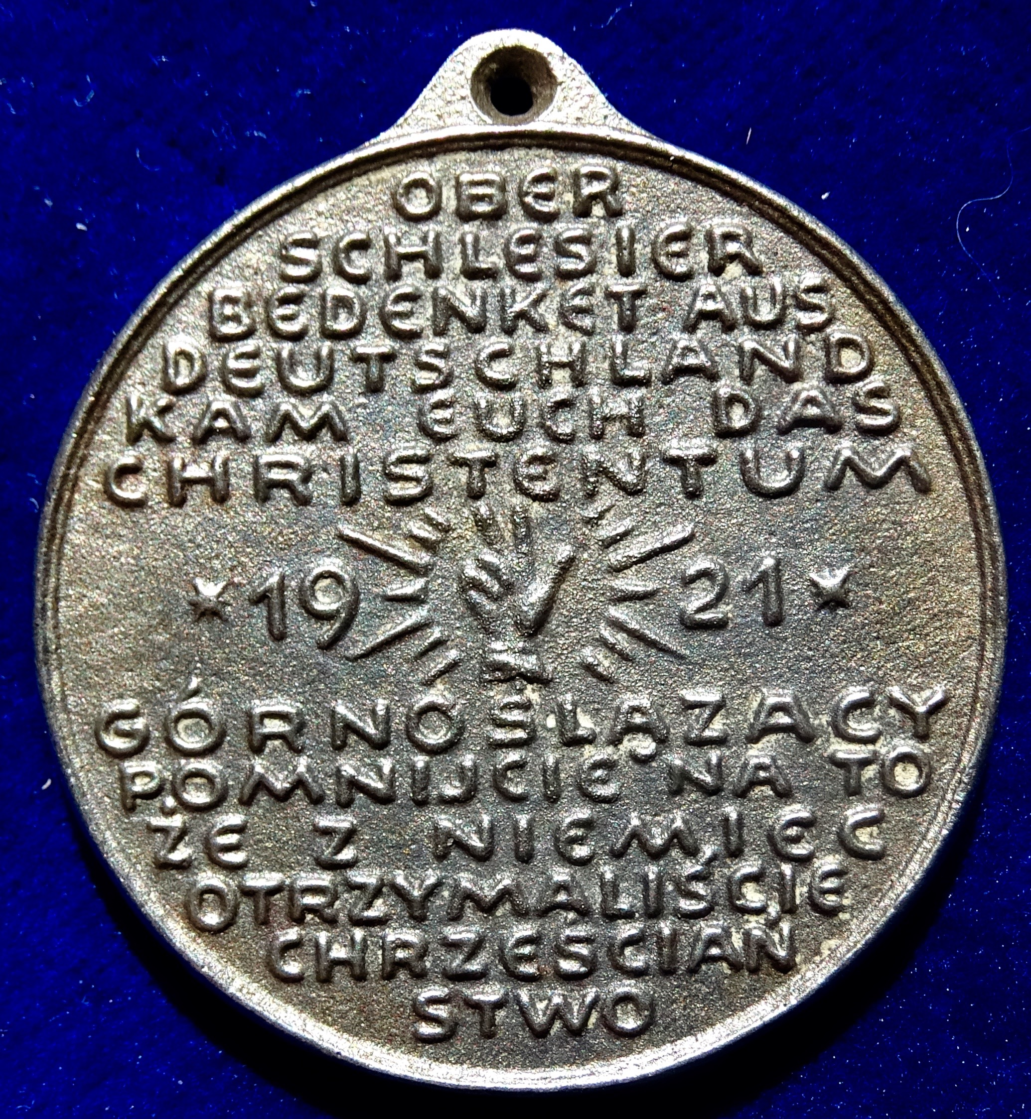 Cast iron, d. = 39 mm. The Upper Silesia plebiscite was a plebiscite mandated by the Versailles Treaty and carried out in March 1921 to determine a section of the border between Weimar Germany and Poland. Since the end of WW2 the whole of Upper Silesia is part of Poland. Saint Hedwig of Silesia, 1174 Andechs Castle, Bavaria - 1243 Trzebnica Abbey, Silesia, Poland 2 lines divided by Saint Hedwig of Silesia: "ST. HEDWIG SW. JADWIGA"/ 6 lines in German above date: "OBER SCHLESIER BEDENKET AUS DEUTSCHLAND KAM EUCH DAS CHRISTENTUM"; 6 lines in Polish below date: GÓRNOSLAZACY POMNIJCIE NA TO ZE Z NIEMIEC OTRZYMALISCIE CHRZESCIAN STWO". Jaschke-Maercker 2410. Medallist: Monogram TG (Philipp Theodor von Gosen), 1873 Augsburg - 1943 Breslau. Condition : UNCIRCULATED.